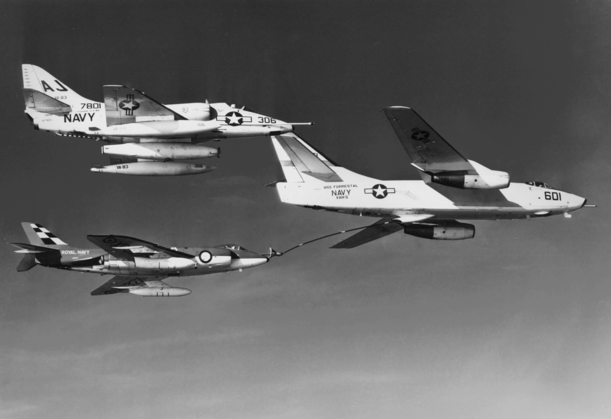 A U.S. Navy Douglas A3D-2 Skywarrior (BuNo 142661) from Heavy Attack Squadron 5 (VAH-5), Carrier Air Group 8 (CVG-8), from USS Forrestal (CVA-59) refueling a Royal Navy Supermarine Scimitar F.1 (s/n XD327) of 803 Naval Air Squadron from HMS Hermes (R12) in 1962-63. The aircraft are accompanied by a Douglas A4D-2N Skyhawk (BuNo 147801) from Attack Squadron 83 (VA-83) Rampagers.